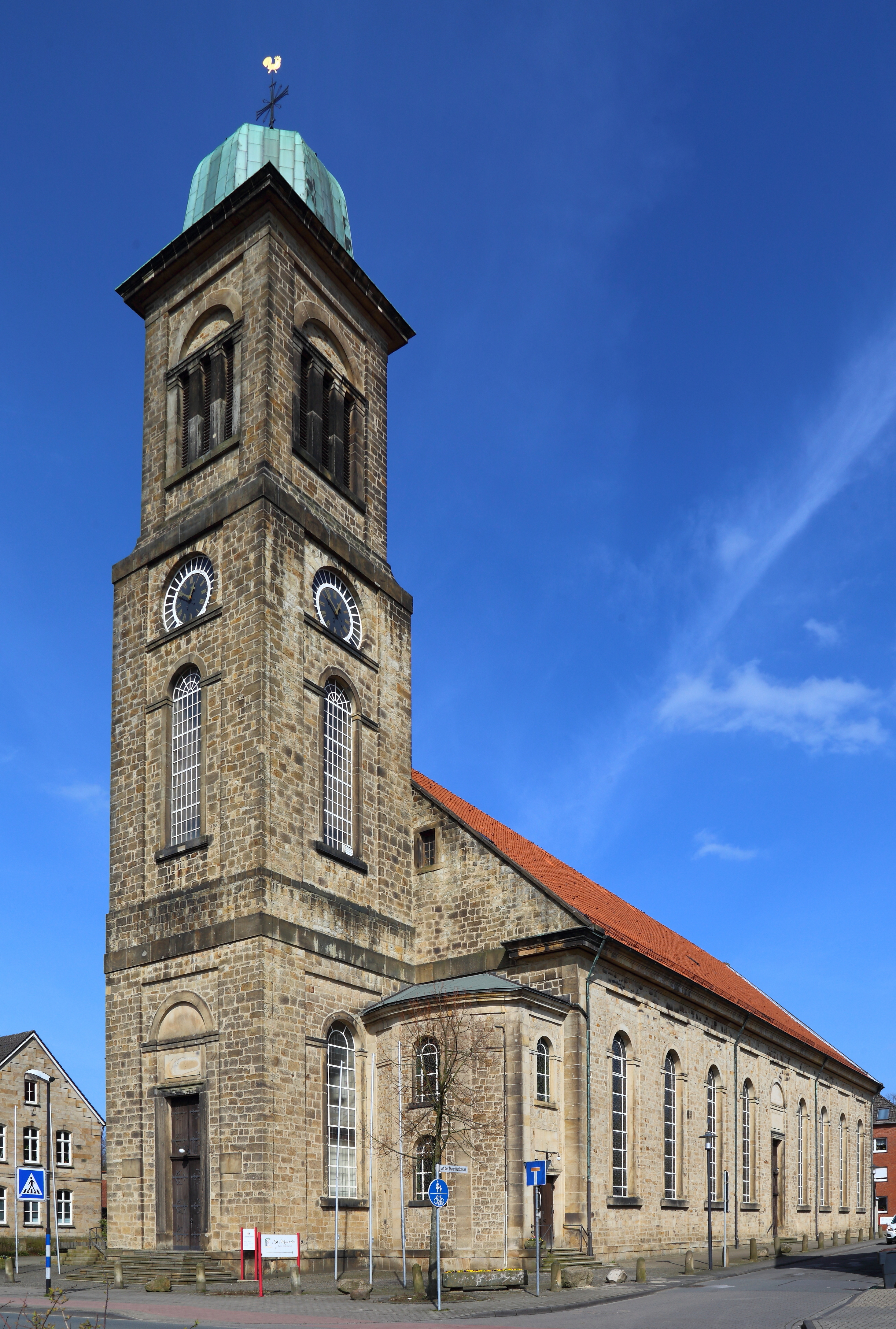 The Roman Catholic St Mauritius Parish Church (Pfarrkirche St. Mauritius) in Ibbenbüren, Kreis Steinfurt, North Rhine-Westphalia, Germany.